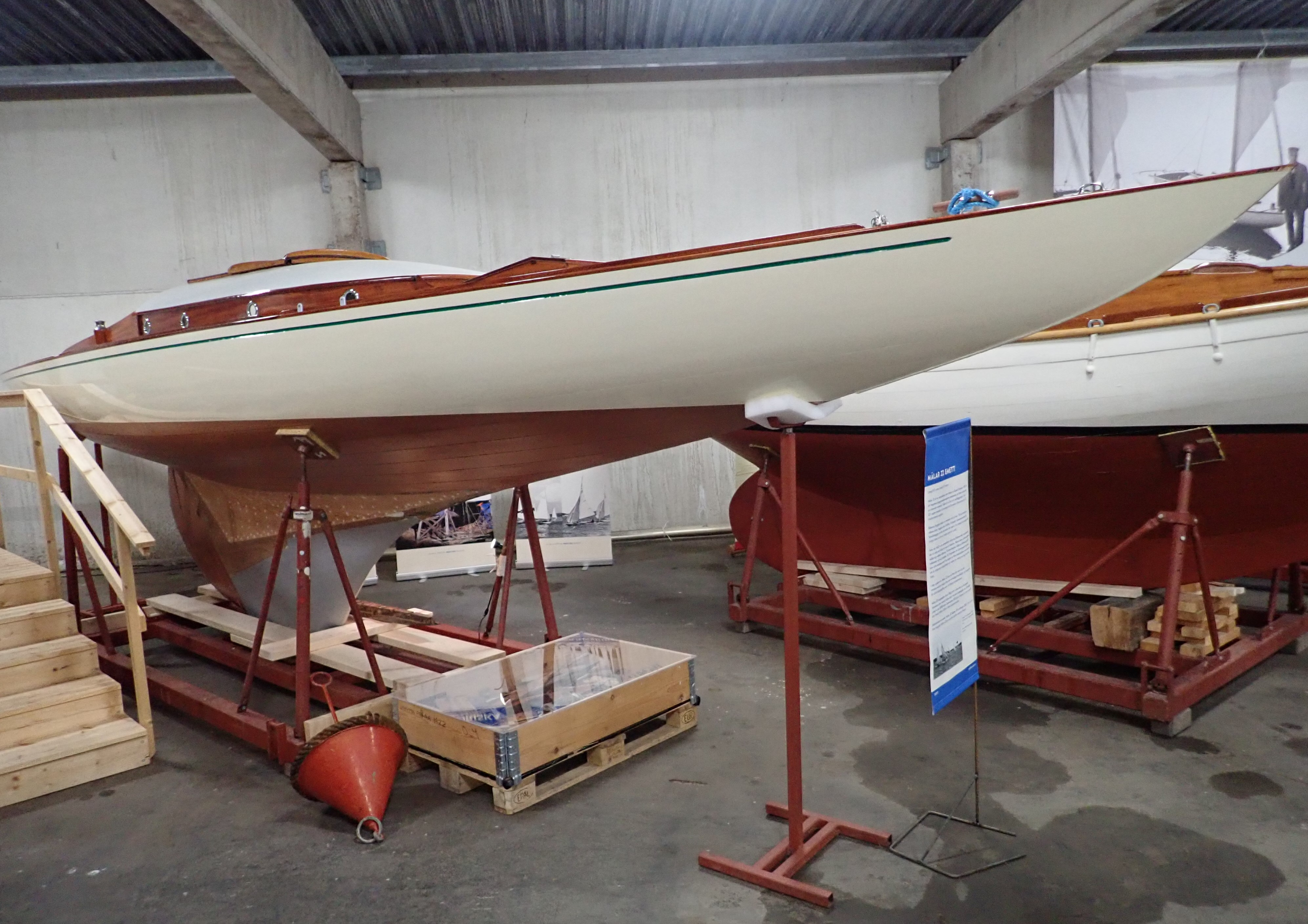 The first sailing yacht of the type Mälar 22, called Emett, designed by Gustaf Estlander in 1929. Emett is a part of the collections of The Maritime Museum Sjöhistoriska (part of the Swedish National Maritime Museums)